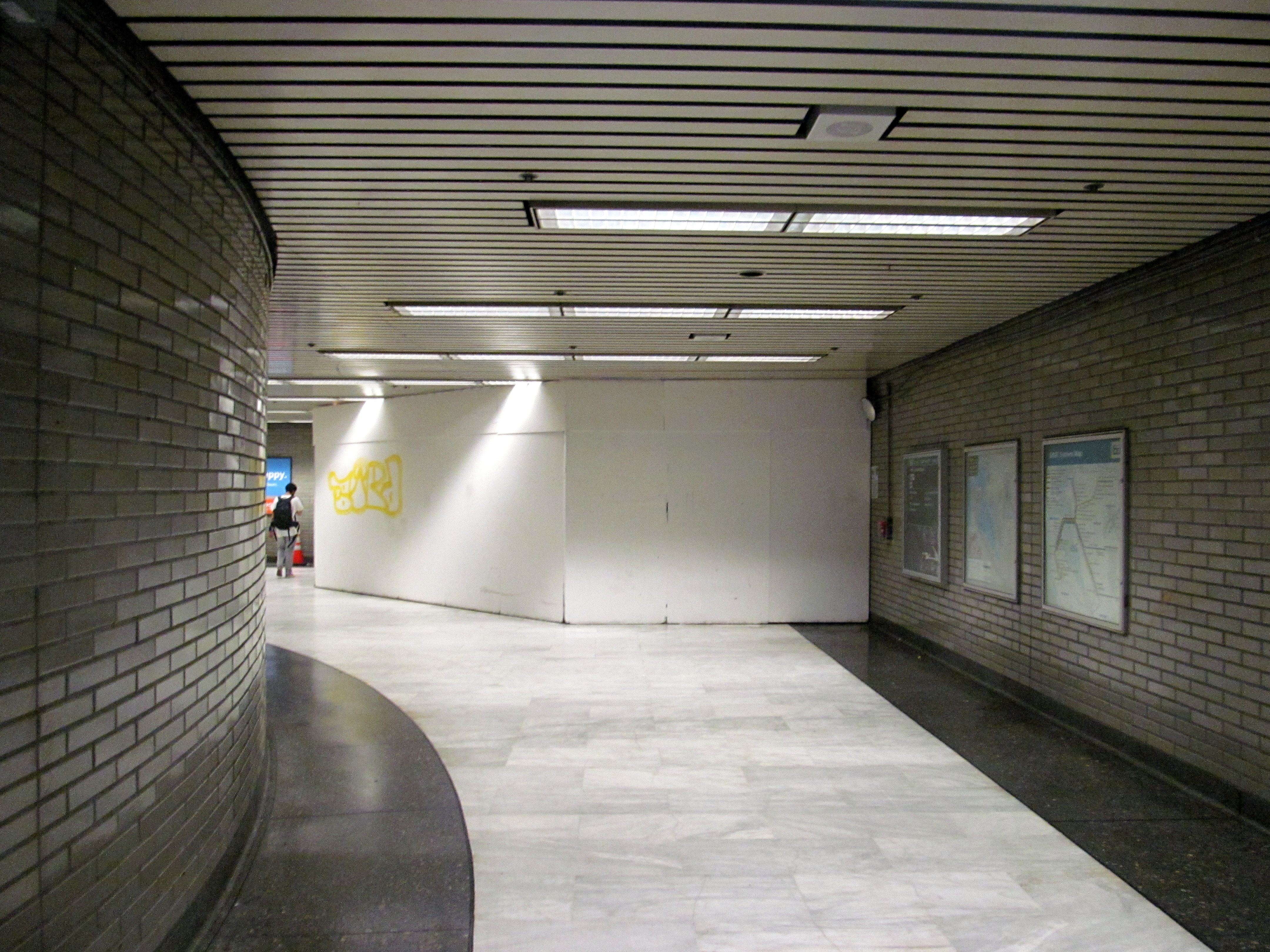 Closed north-side entrance at 8th and Hyde inside Civic Center station in October 2017. The entrance was closed in December 2016 after a sewer pipe collapsed under the escalators. In August 2017, BART announced that both the closed entrance and the still-open entrance in this corridor would likely be permanently closed, as the passageway space is needed for a new electrical substation to increase Transbay Tube train frequency. This closure took place on November 1, 2018. The six original entrances (all of which are significantly closer to the faregates) remained open.